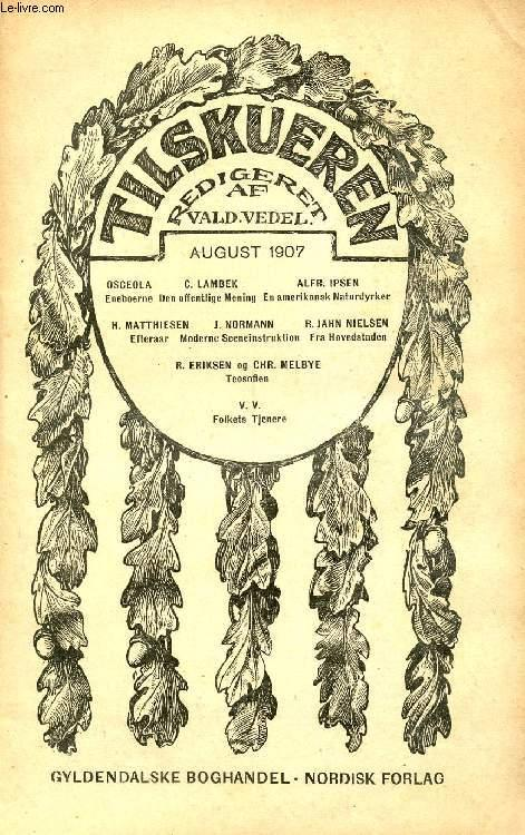 Cover of the August 1907 edition of the Danish literary journal Tilskueren